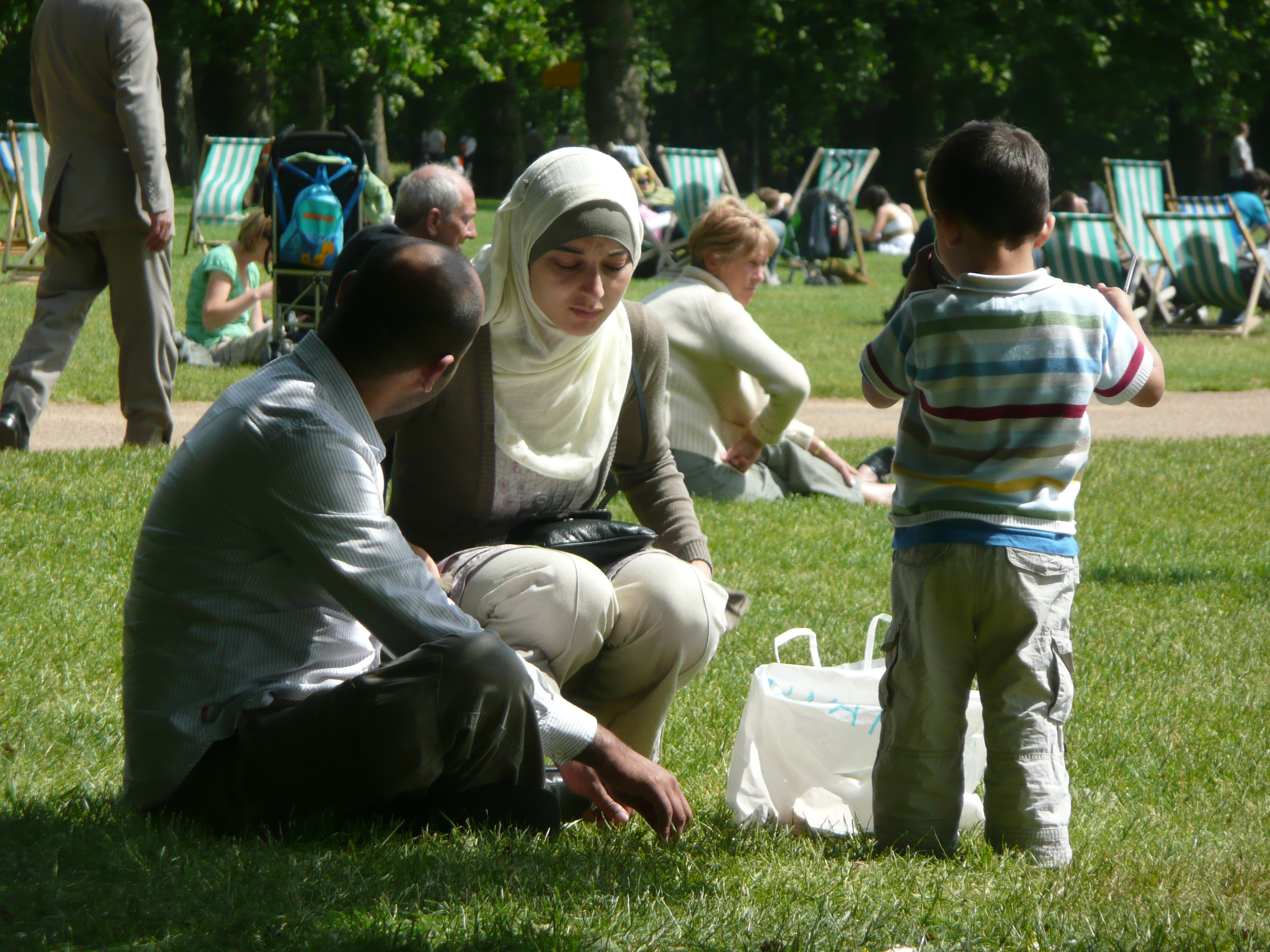 Photographs from London